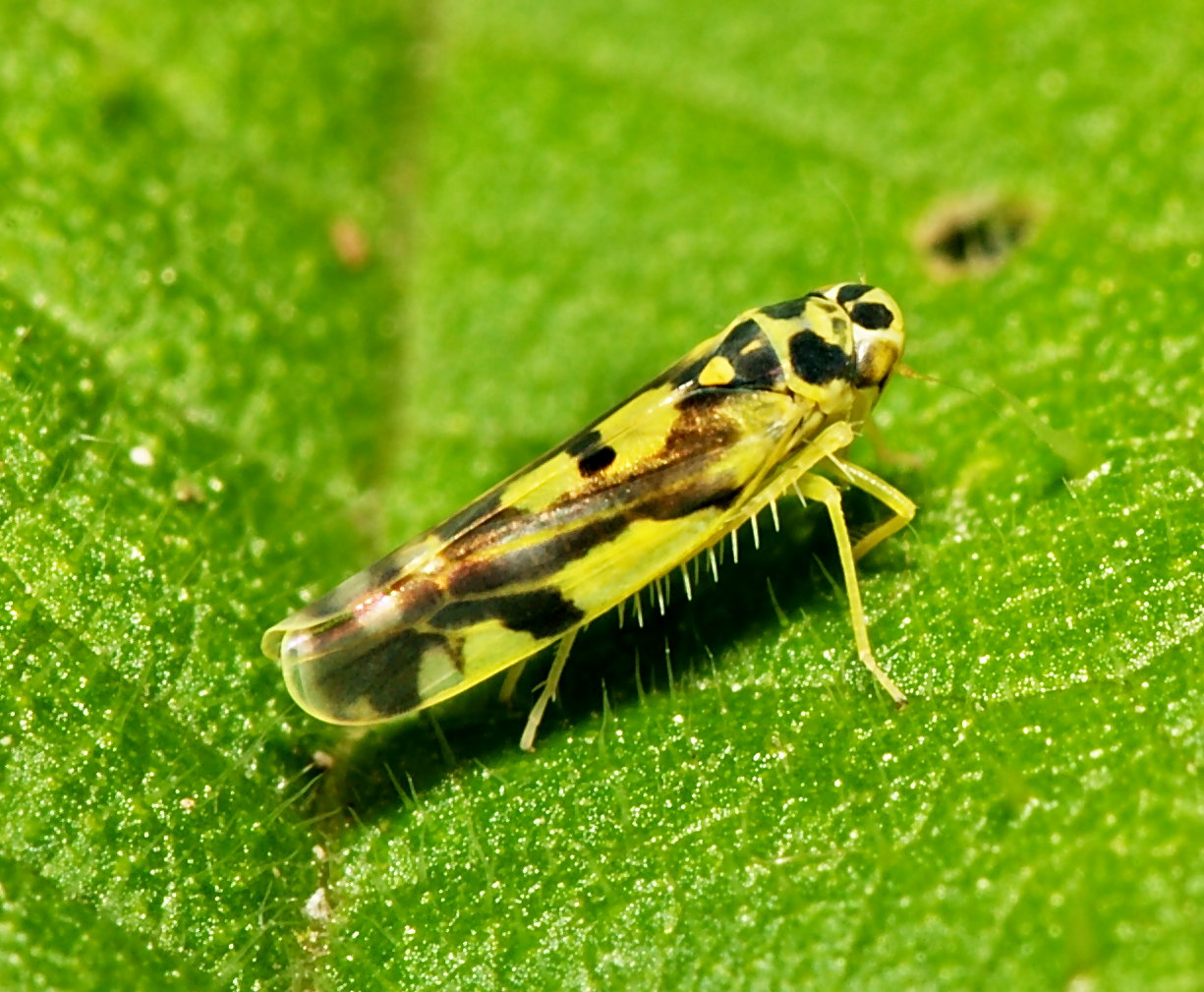 Eupteryx aurata from Nettersheim, Germany.